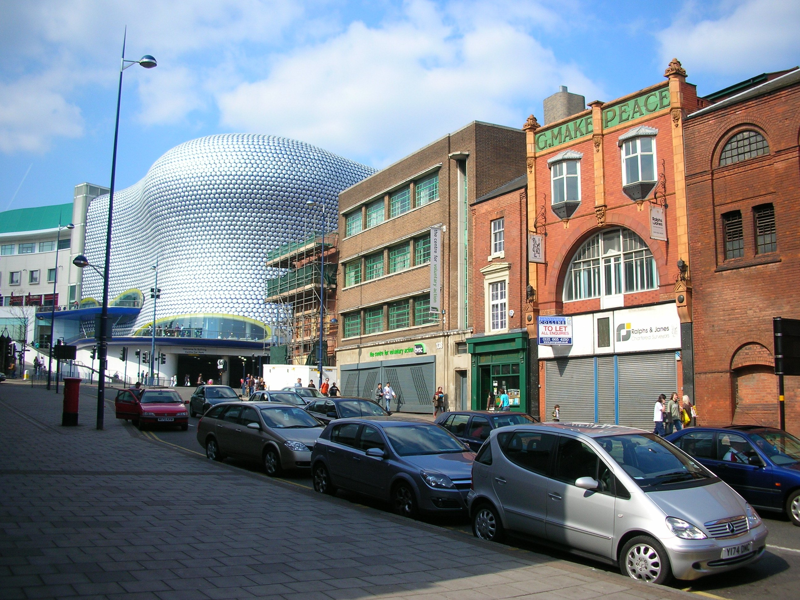 Digbeth (the street) leading up to Selfridges store in Birmingham, England. Photographed by me 7 April 2007. Oosoom)